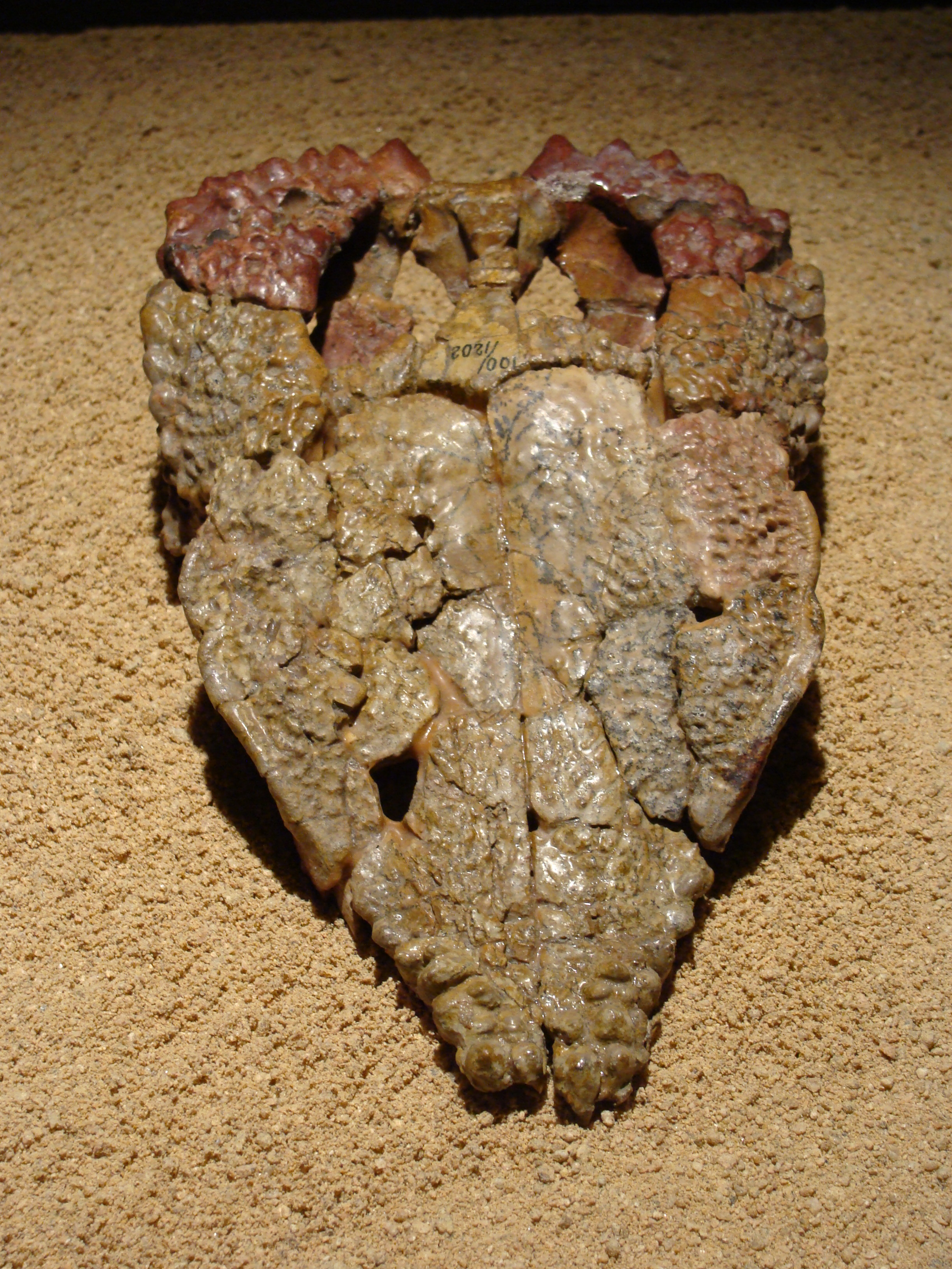 Goyocephale lattimorei in the exhibition "Dinosaures. Tresors del desert de Gobi" ("Dinosaurs. Treasures of Gobi Desert") in CosmoCaixa, Barcelona.